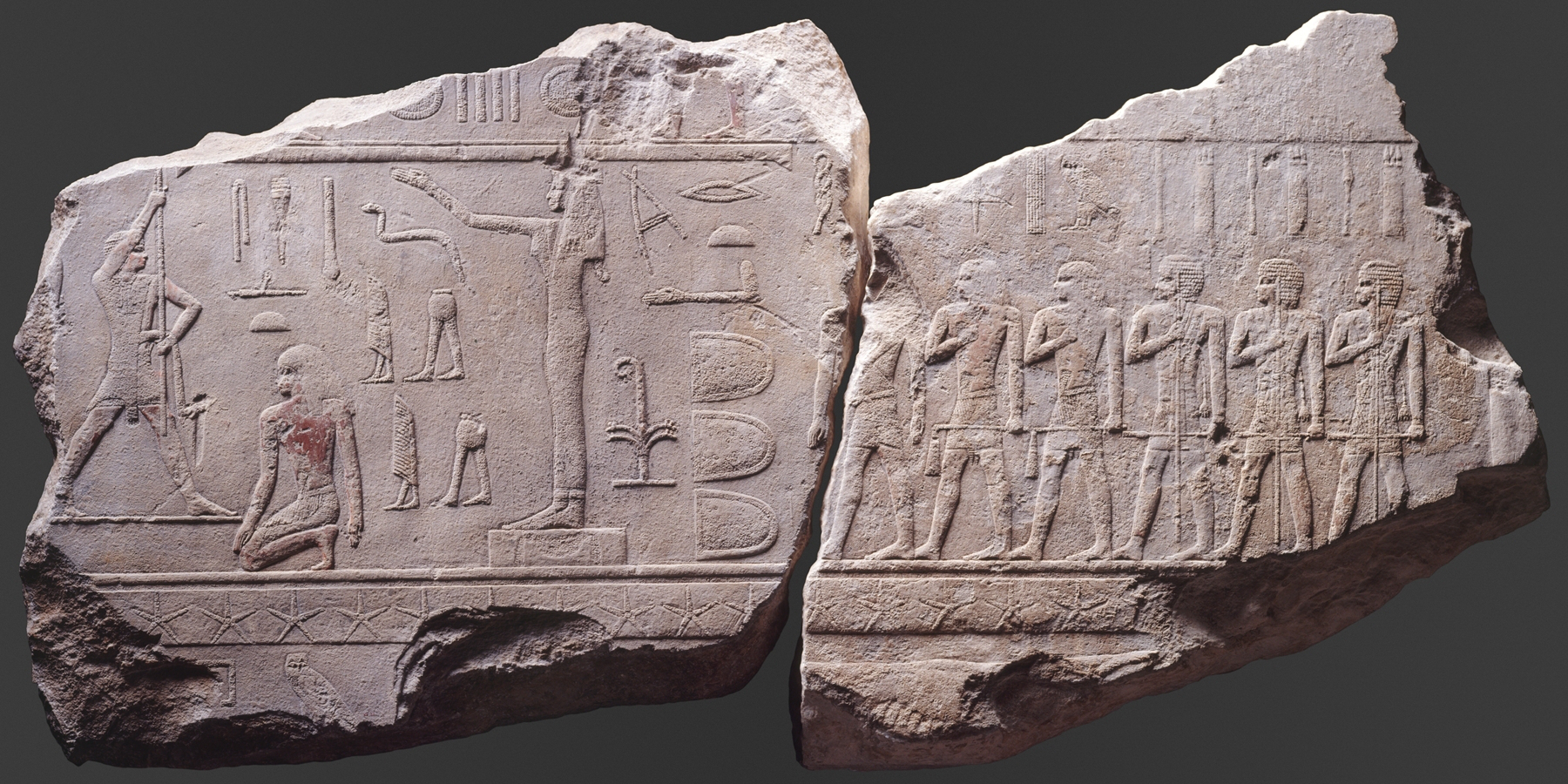 See 09.180.18